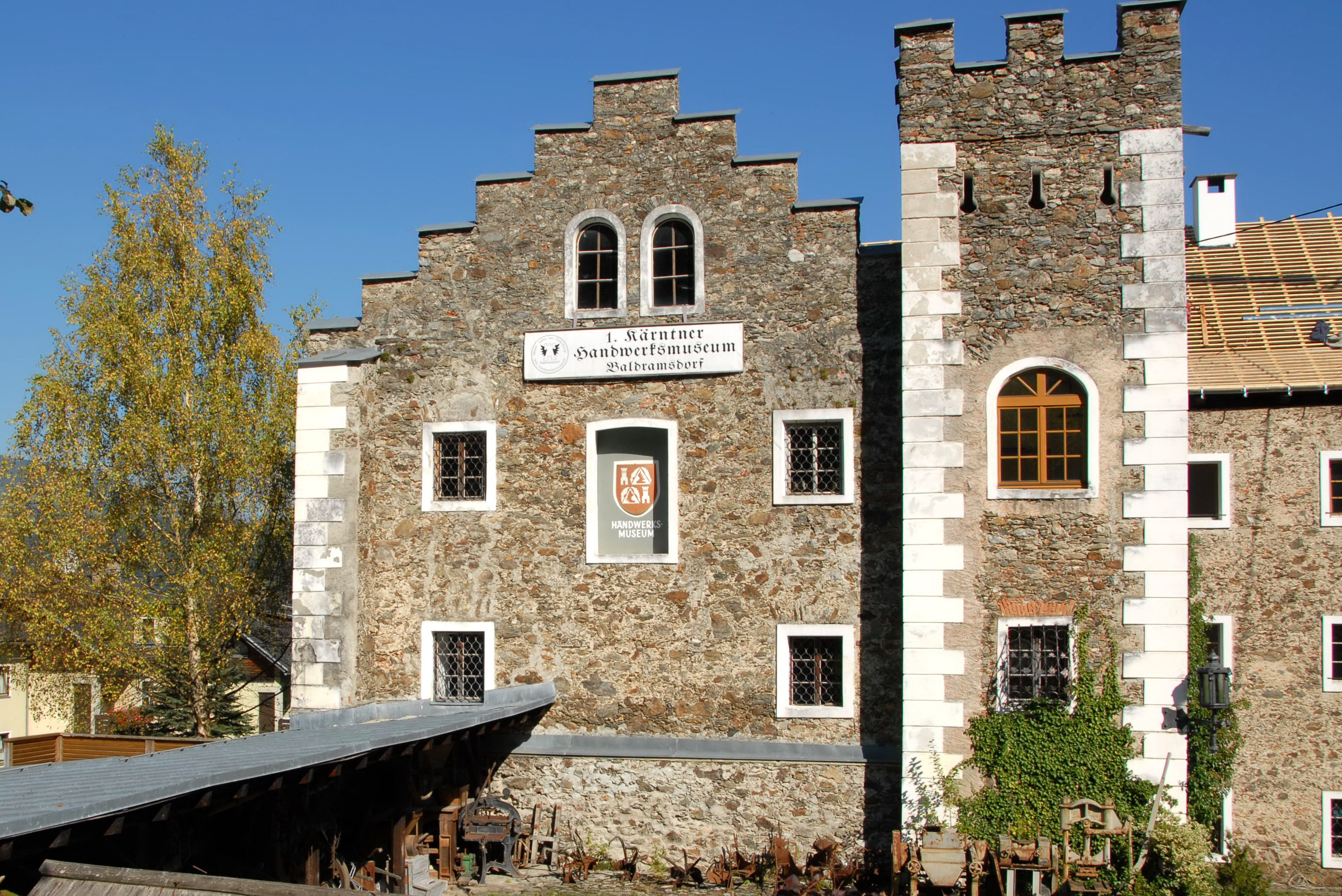 Castle at Unterhaus in the community of Baldramsdorf, Carinthia, Austria